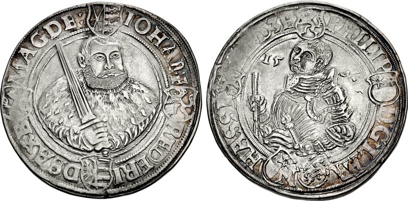 GERMANY, Sachsen-Ernestinische Linie (Kurfürstentum und Herzogtum). Johann Friedrich, with Philipp von Hessen. 1542-1547. AR Taler (40mm, 28.72 g, 4h). Struck for the occupation of Braunschweig by the Schmalkalder Bund. Goslar mint. Dated 1546. Half-length busy of Johann facing slightly right, wearing electoral robes and holding sword / Armored half-length bust of Philip left, holding baton. Koppe 228; Schnee 131; Davenport 9740. VF, fields smoothed, heavy tooling in devices. Rare. Johann Friedrich, the Protestant elector of Saxony, was an important figure in the religious wars of the 16th century. Not only was he a personal friend of Martin Luther, but the elector also made sweeping reforms in his lands in support of the Protestant cause. In 1546, Johann Friedrich became embroiled in the Schmalkaldic War against Catholic Holy Roman Emperor Karl V. For the elector, the outcome was not good: he was defeated by Karl V at the Battle of Mühlberg in 1547 and imprisoned. When his cousin Maurice attacked Karl V in 1552, he was released and restored to power as a duke of Saxony. This coin was struck in the year of his release, just two years before his death.